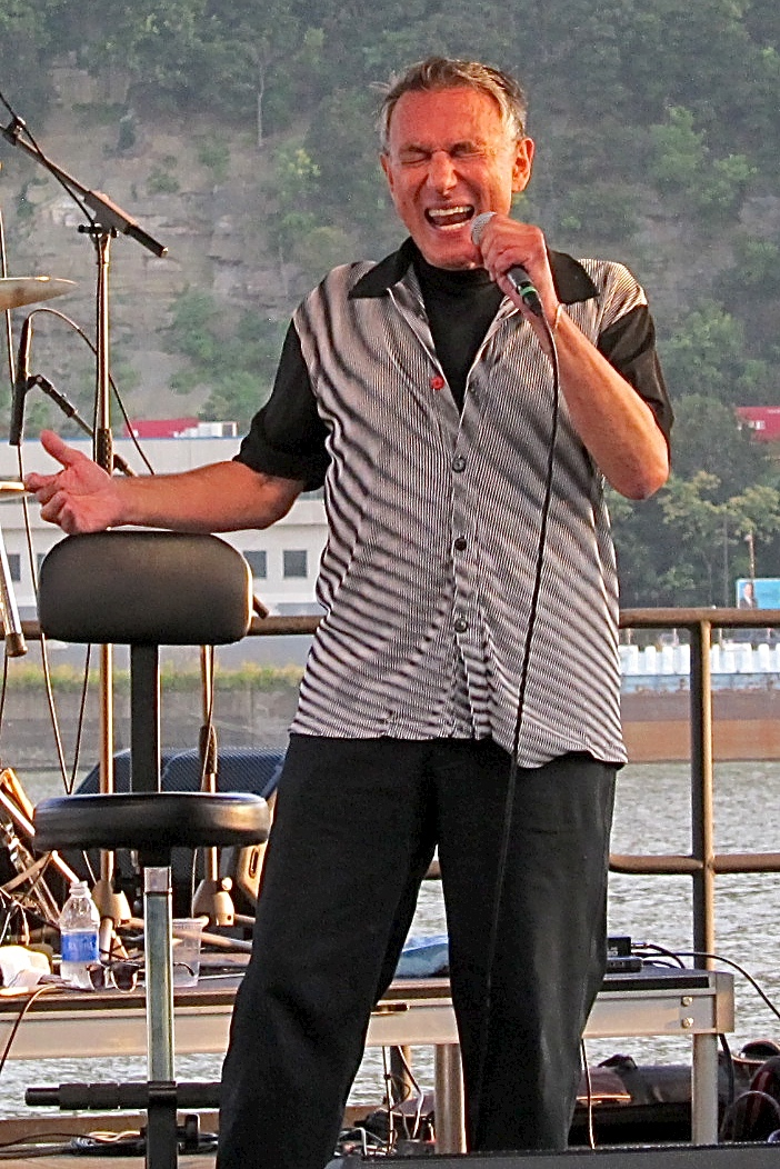 Frank Czuri in concert at the Rivers Casino in Pittsburgh, Pennsylvania, USA.